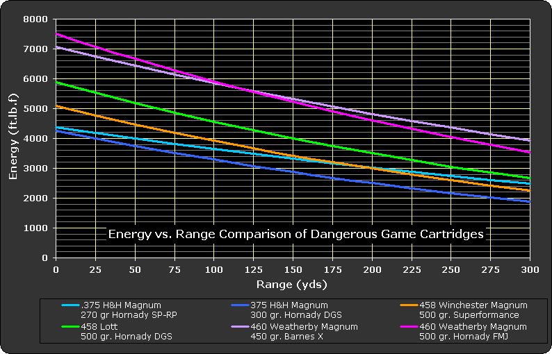 Energy vs. Range Comparison between the .375 H&H Magnum, .458 Winchester Magnum, .458 Lott and the .460 Weatherby Magnum.